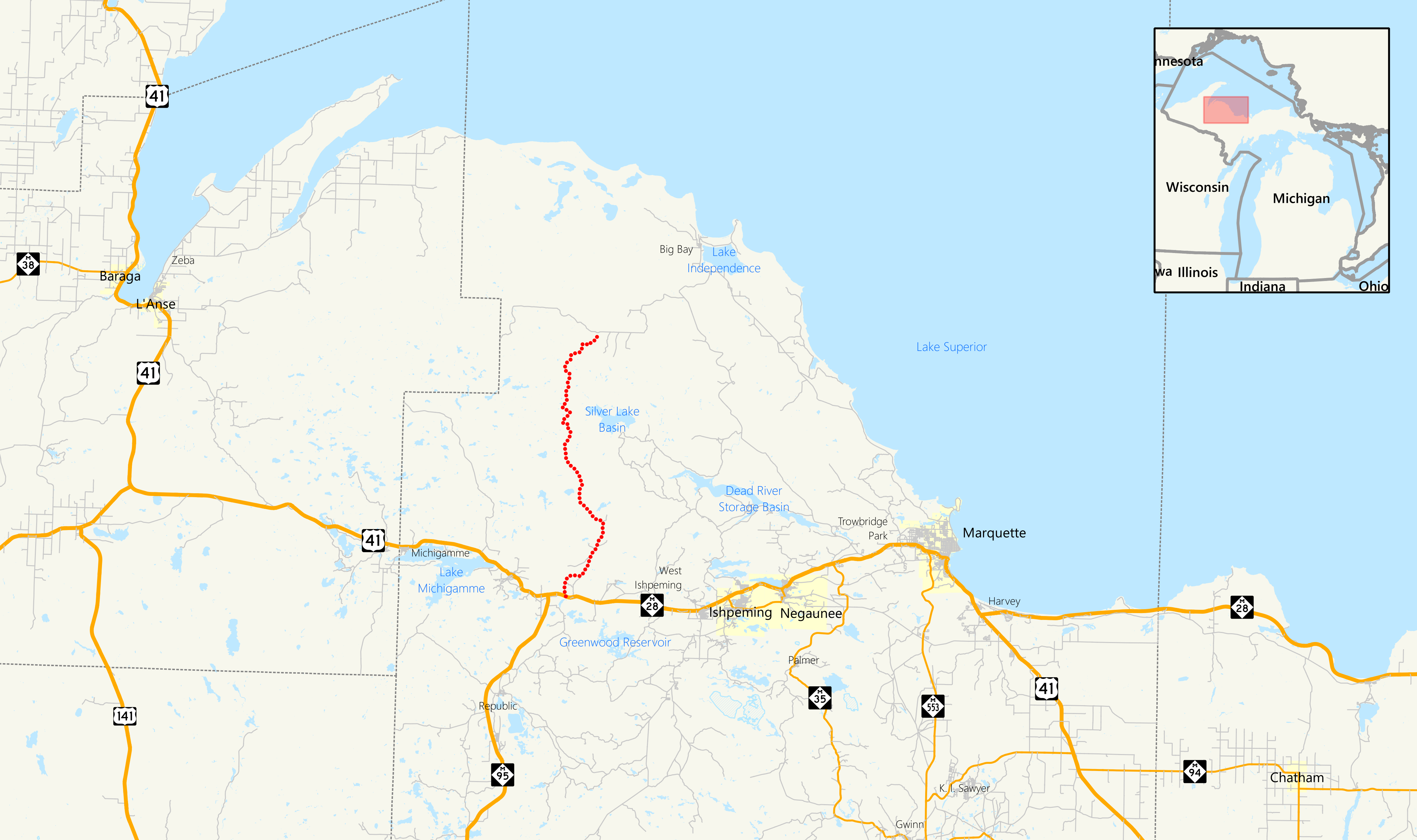 Map of the proposed route of County Road 595 in Marquette County in the Upper Peninsula of Michigan